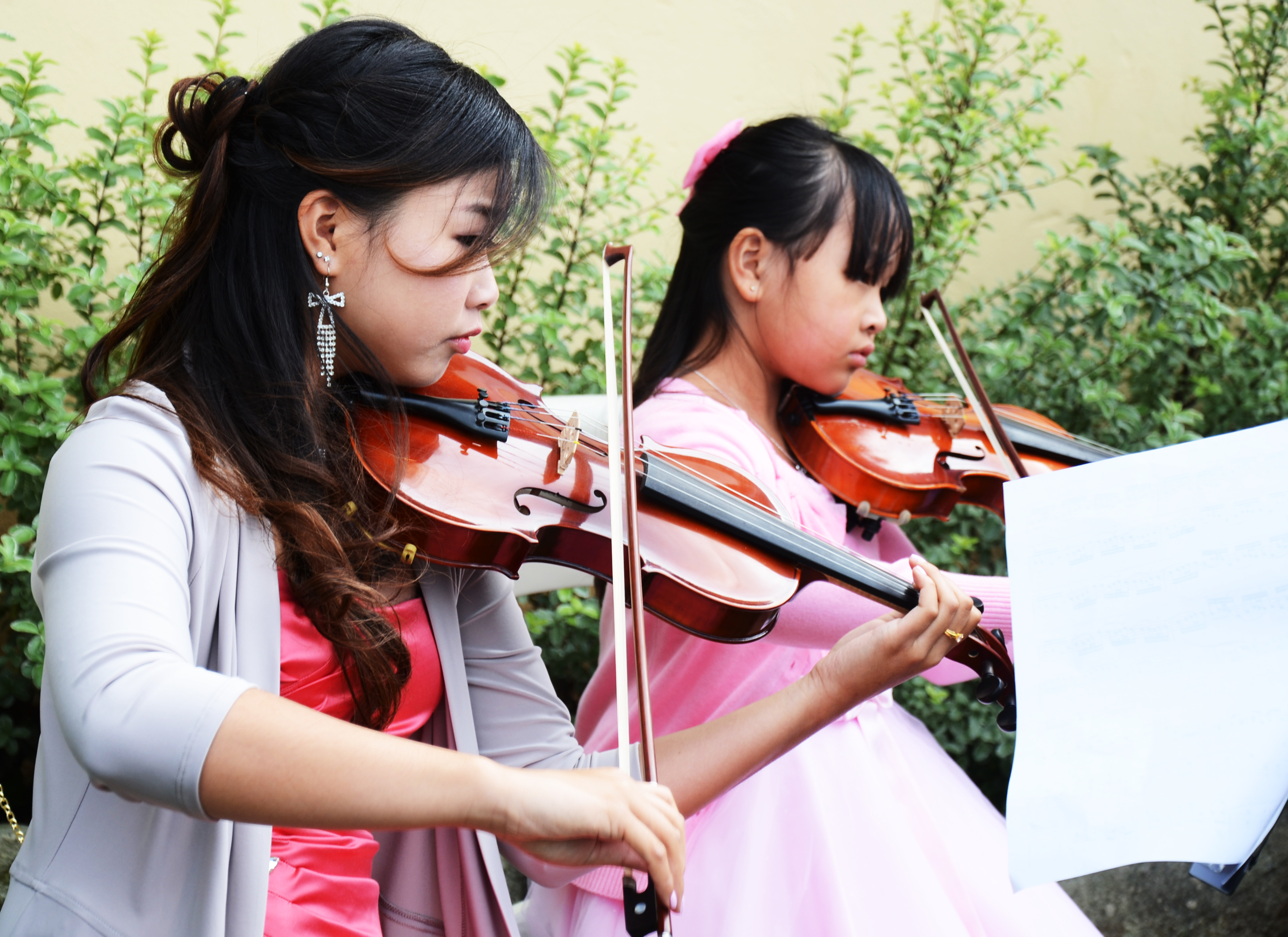 Two young girls playing violin at a wedding ceremony in Sydney